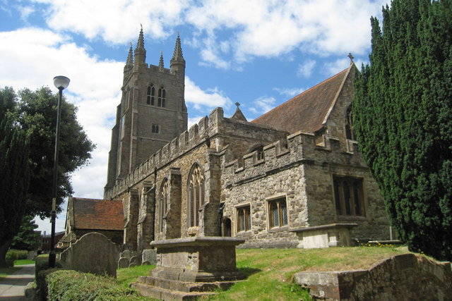 St Mildred's parish church, Tenterden, Kent, seen from the southeast